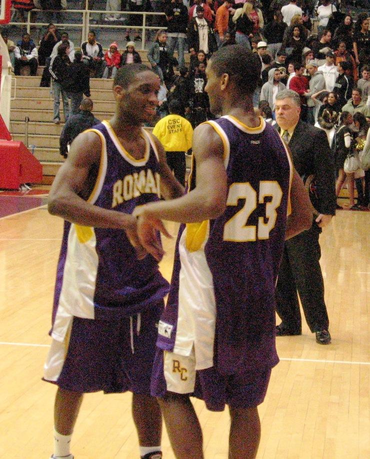 back on the court . . . Brian & Bradley (with CL chairman Joe Sette and plaque in background)